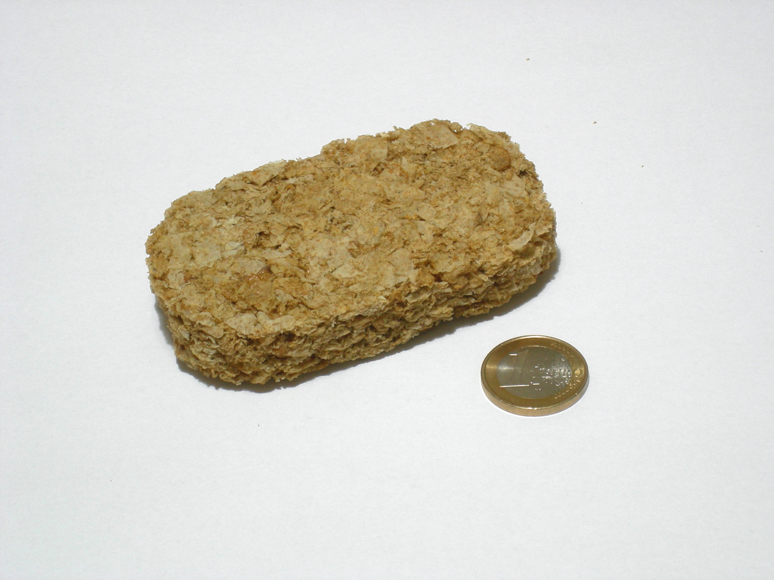 Whole wheat biscuit Weetabix